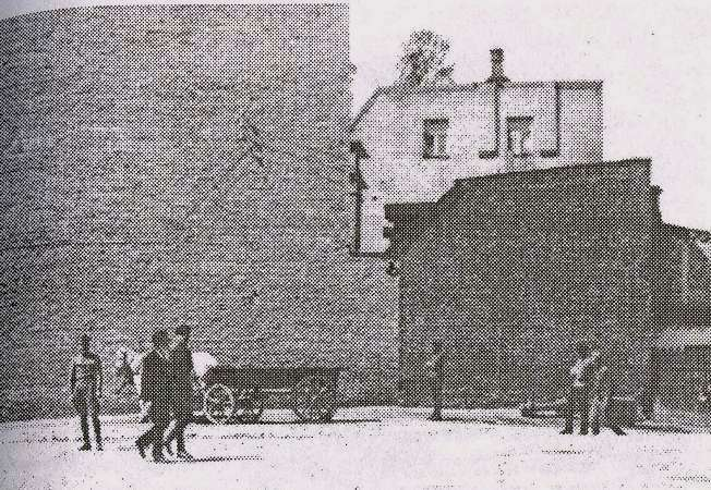 Mykhailo Grushevskiy, the first President of Ukraine, with military commanders